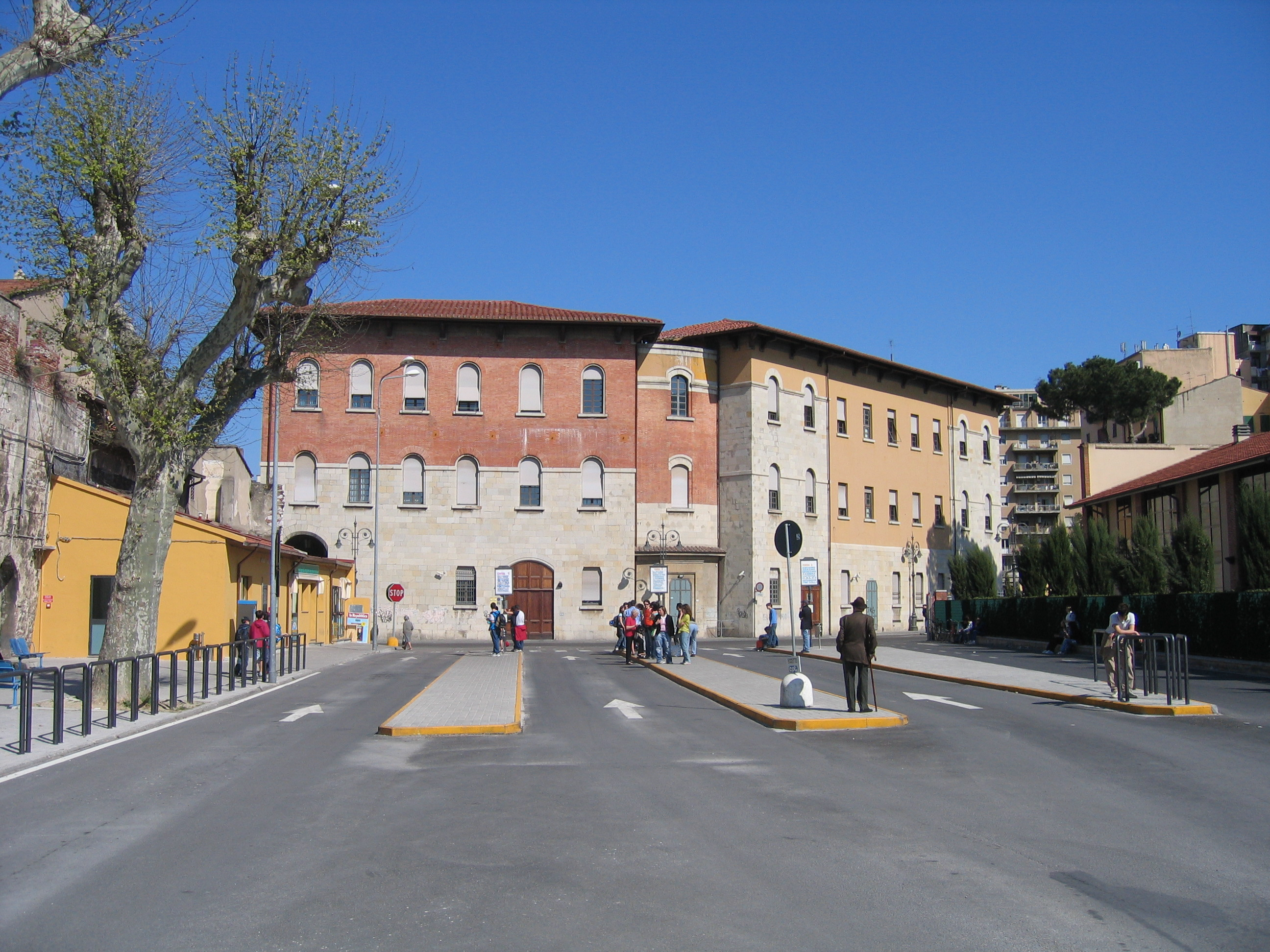 Former Pisa tramway station